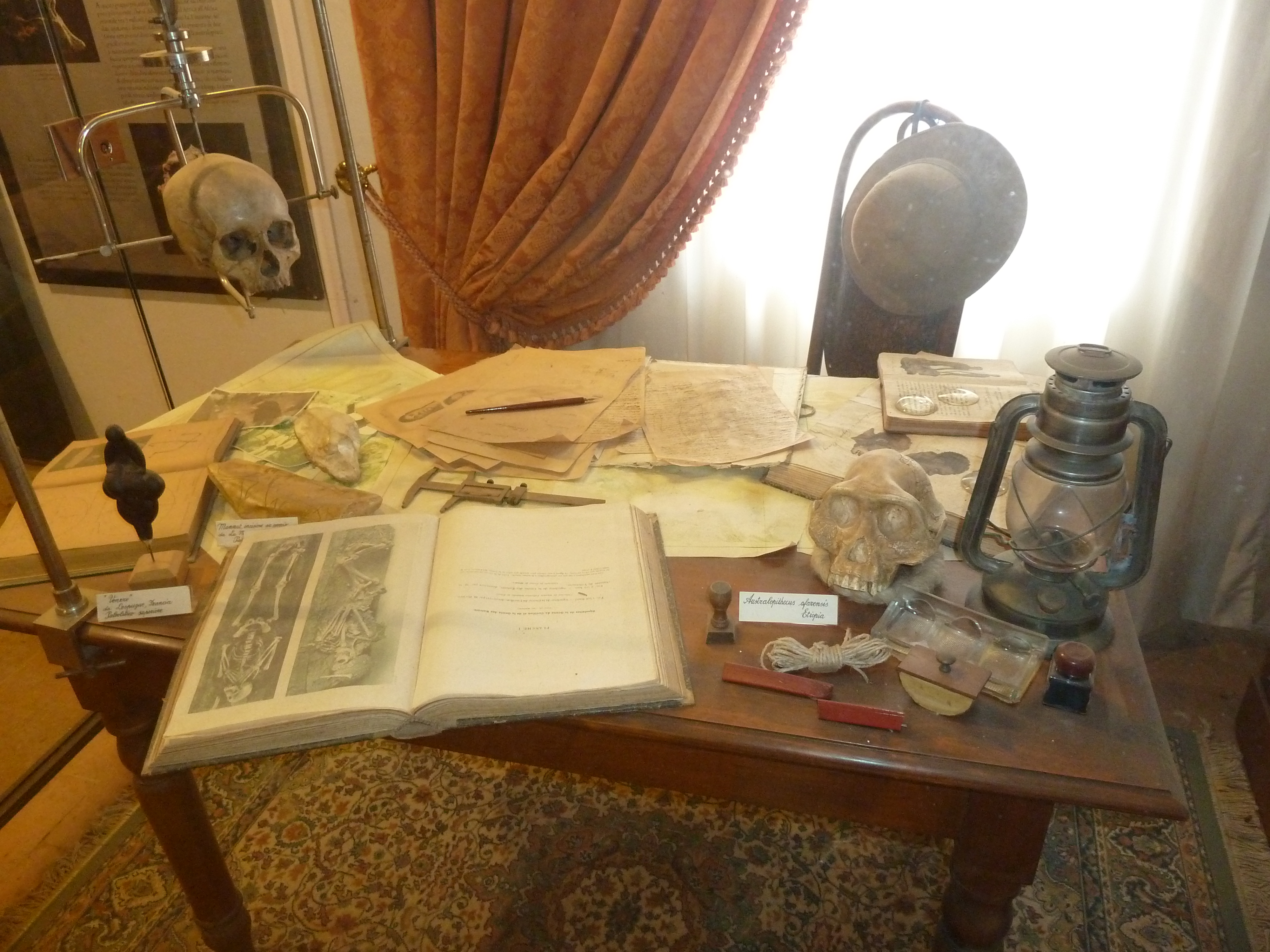 PaleoantropologiaXIXSecoloPisa